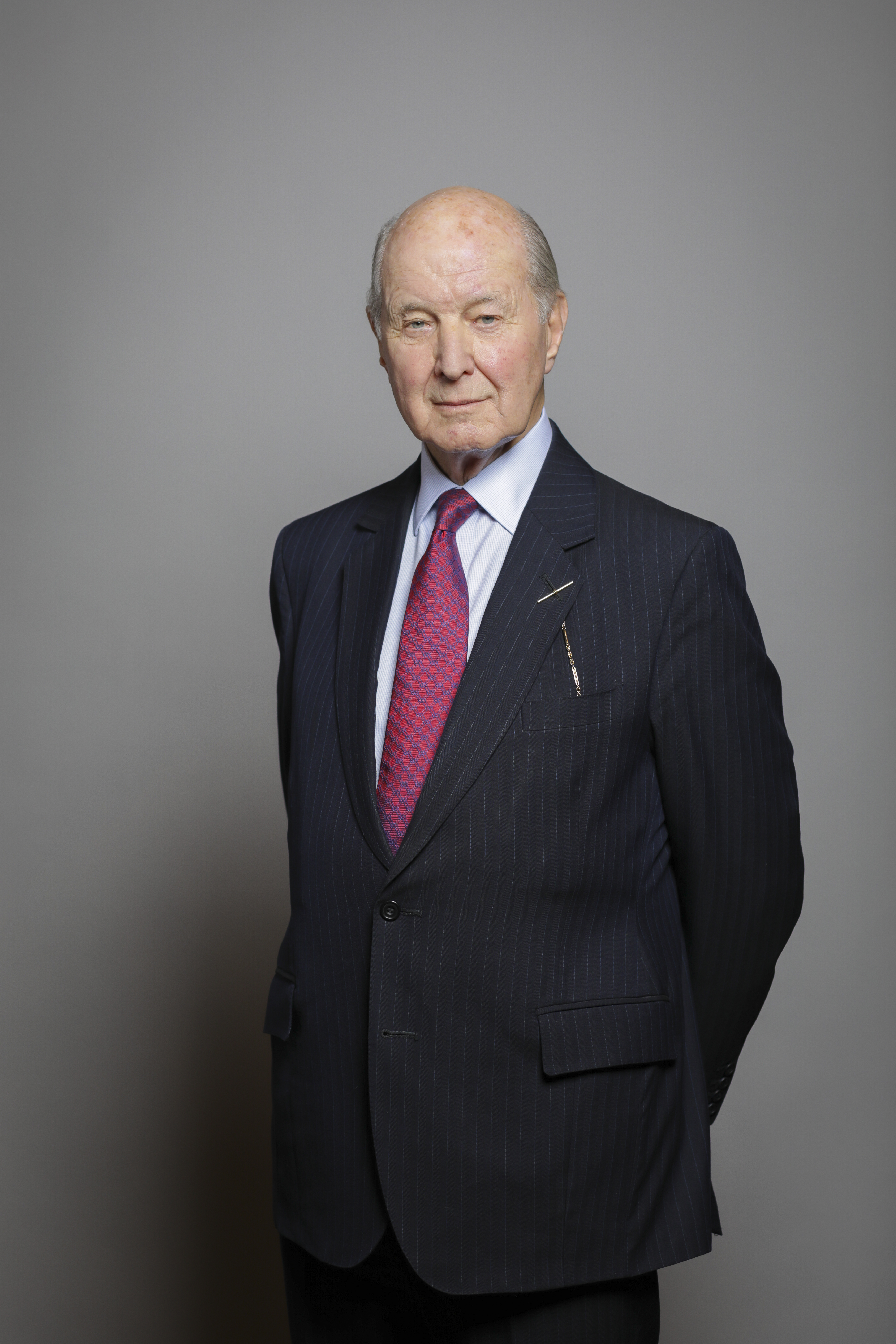 Official portrait of Lord Sterling of Plaistow Full sized portrait of Lord Sterling of Plaistow